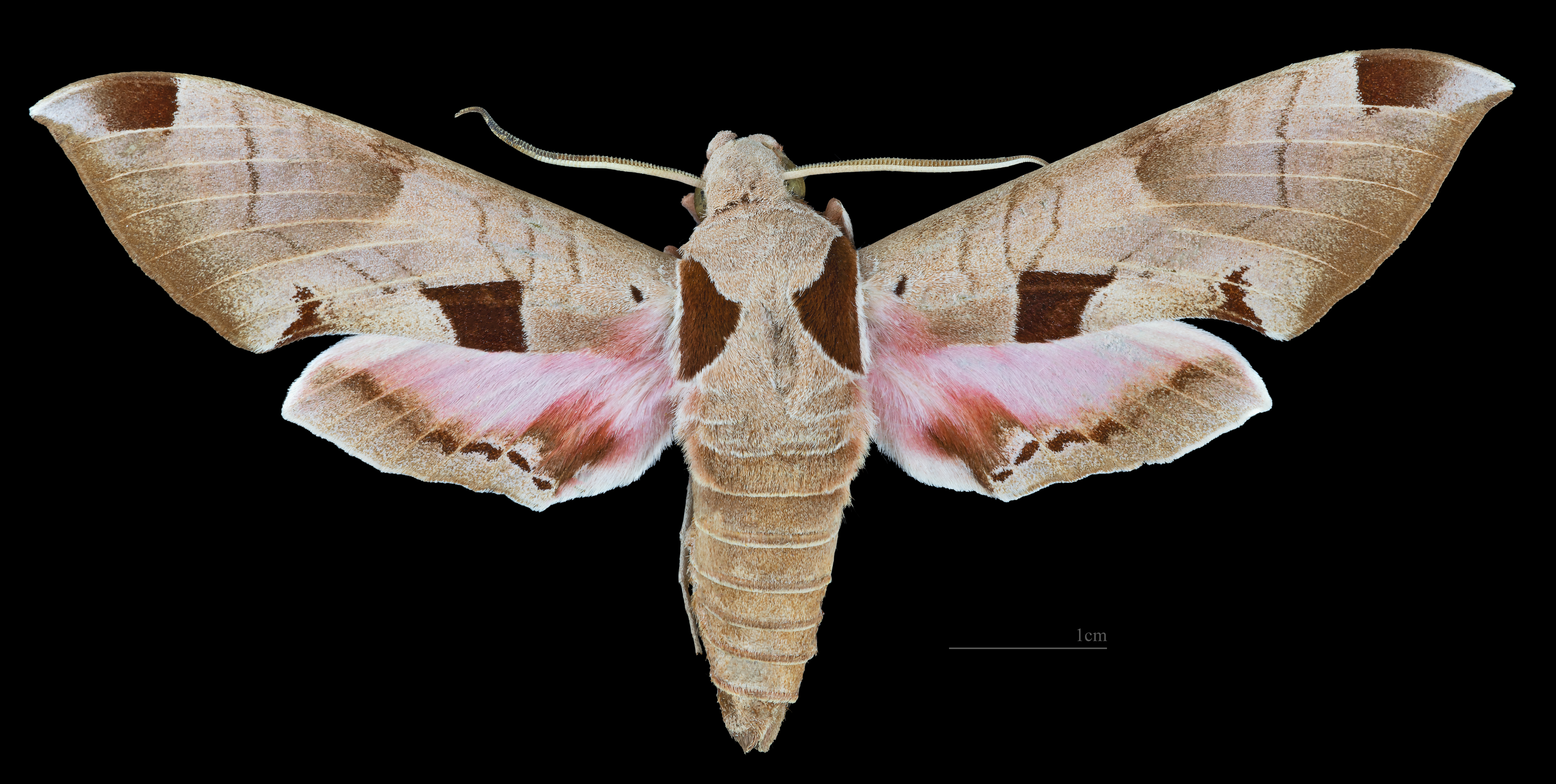 Eumorpha achemon - Dorsal side Collection of the Mathematician Laurent Schwartz